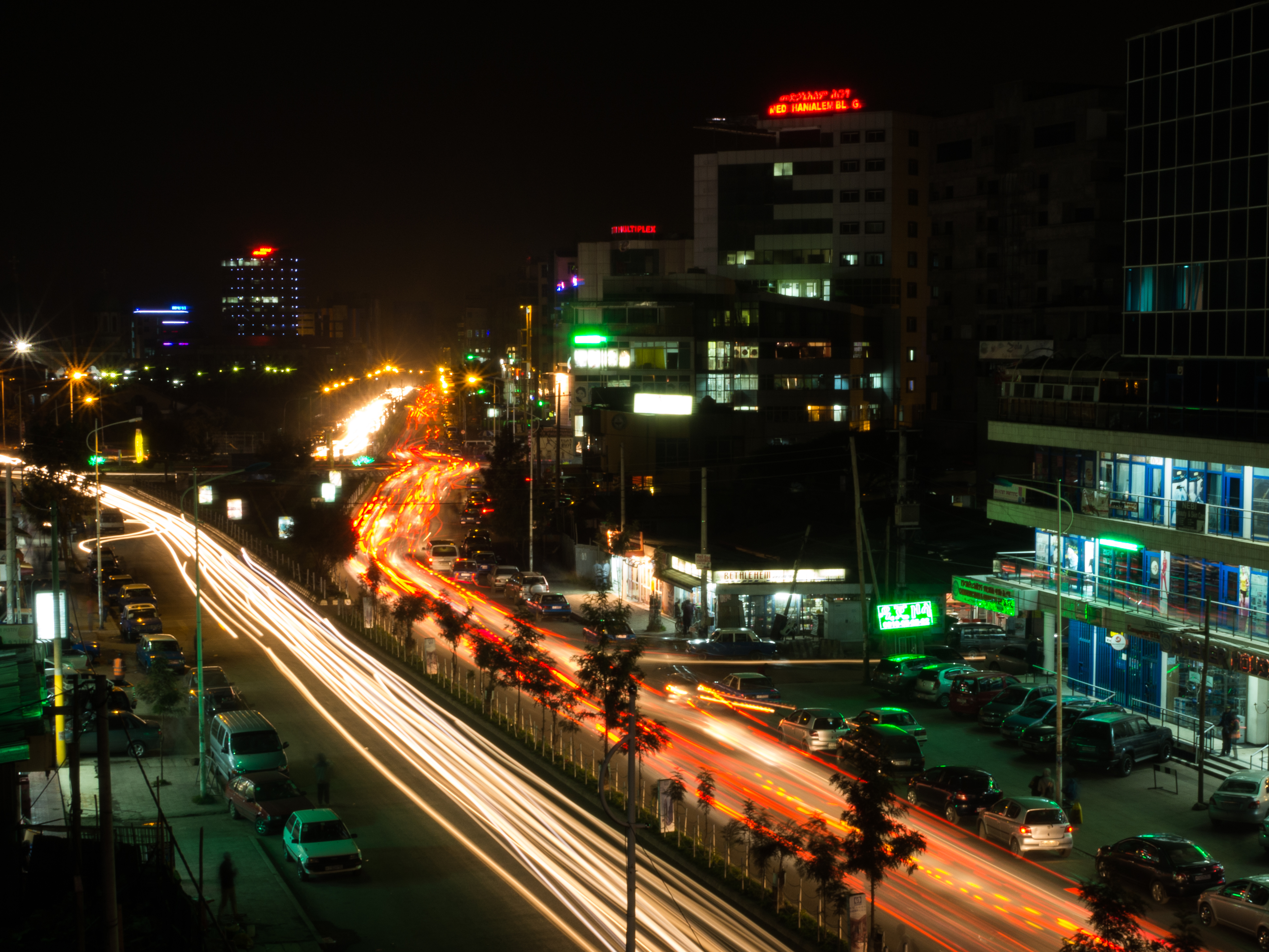 Addis Ababa is a very active city even by night. Taken near Bole MehaneAlem - Edna Mall.